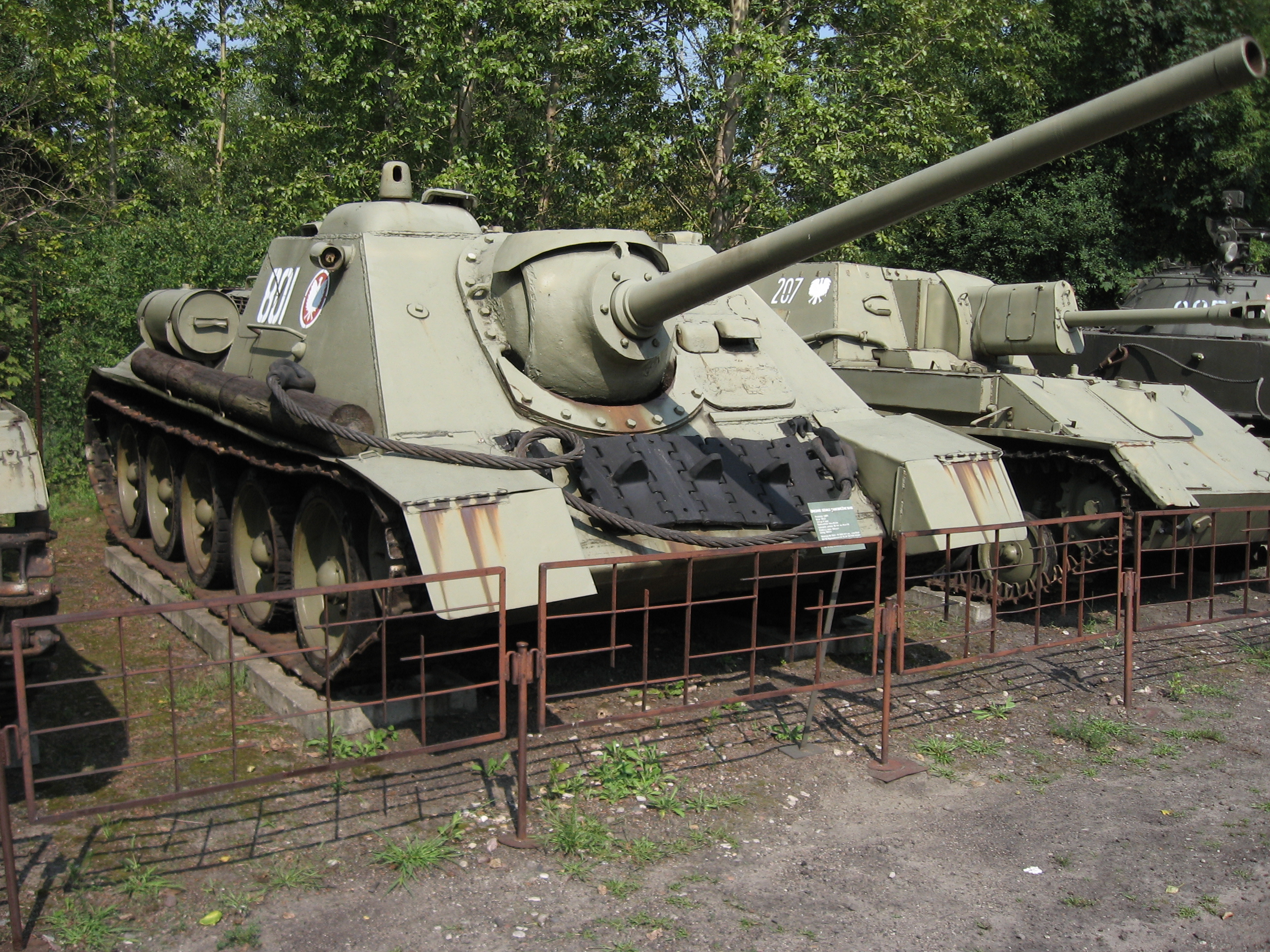 SU-85 tank destroyer at the Muzeum Polskiej Techniki Wojskowej in Warsaw.jpg